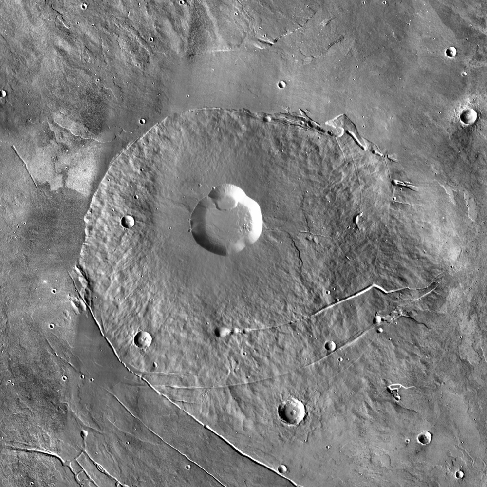 A daytime infrared image mosaic of Albor Tholus from the Thermal Emission Imaging System (THEMIS) instrument of the 2001 Mars Odyssey spacecraft. Albor Tholus is a volcano in Elysium, a volcanic region on Mars.